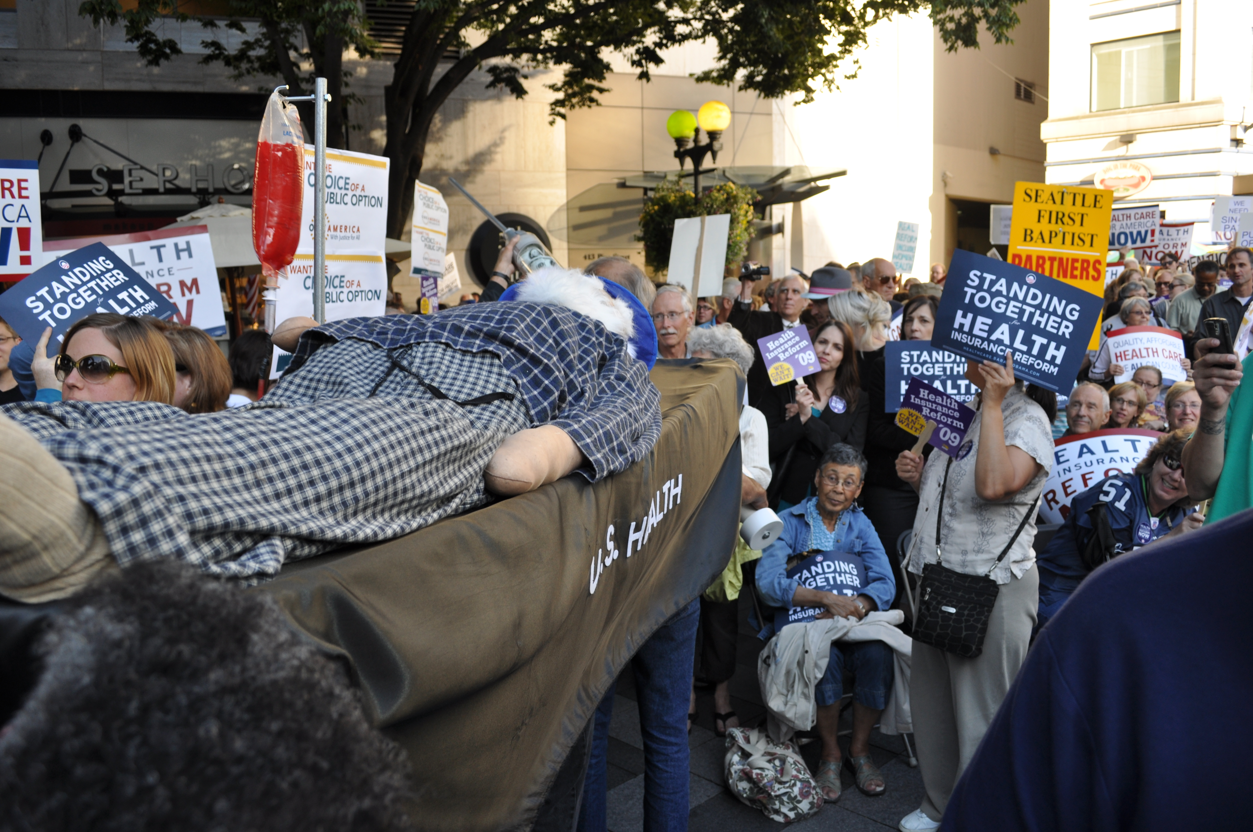 September 3, 2009 health care reform rally at Westlake Park in Seattle, Washington, USA. Figure of Uncle Sam on a stretcher (/ litter) marked "U.S. Health".